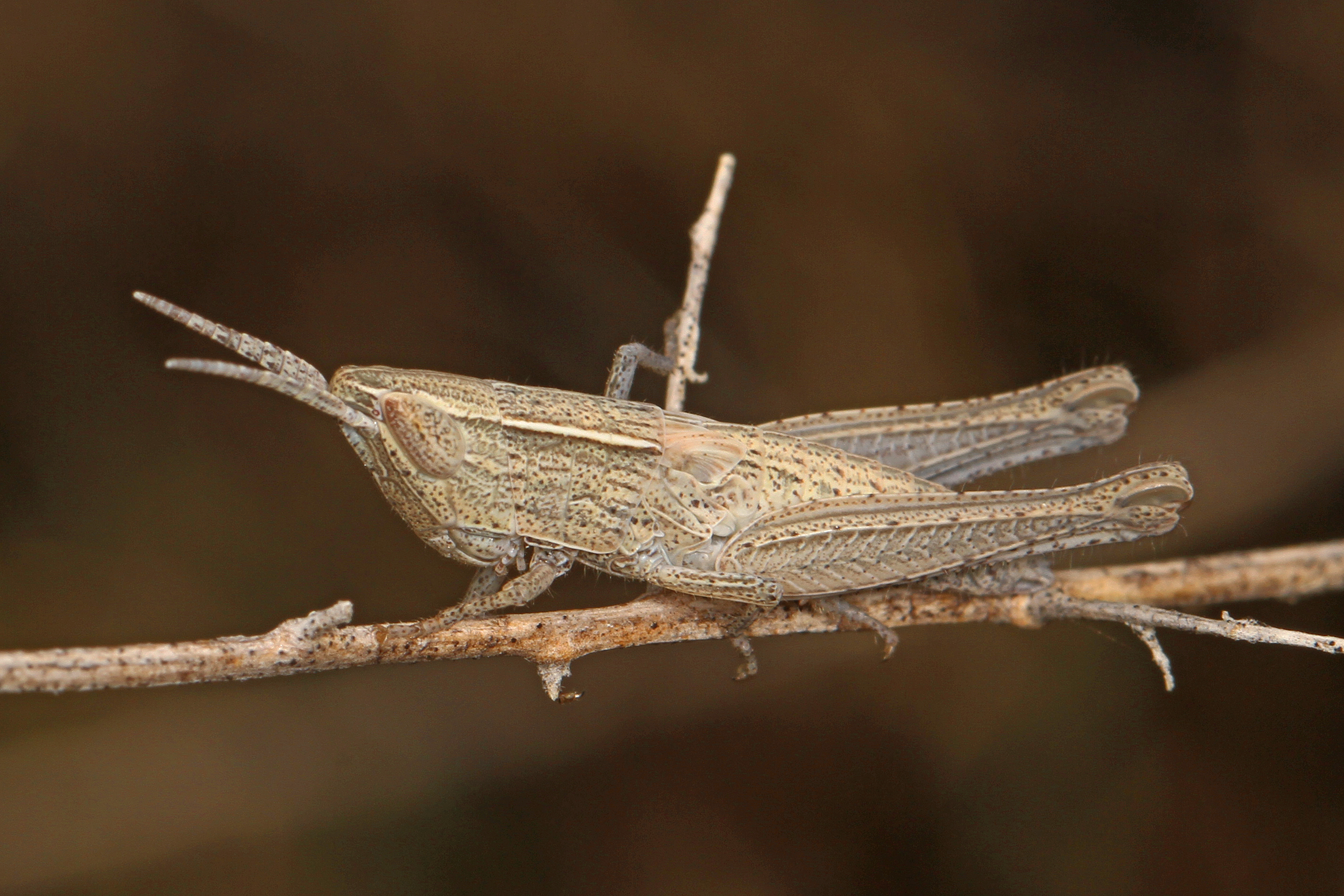 Obscure Grasshopper nymph - Opeia obscura, Pahranagat National Wildlife Refuge, Nevada.